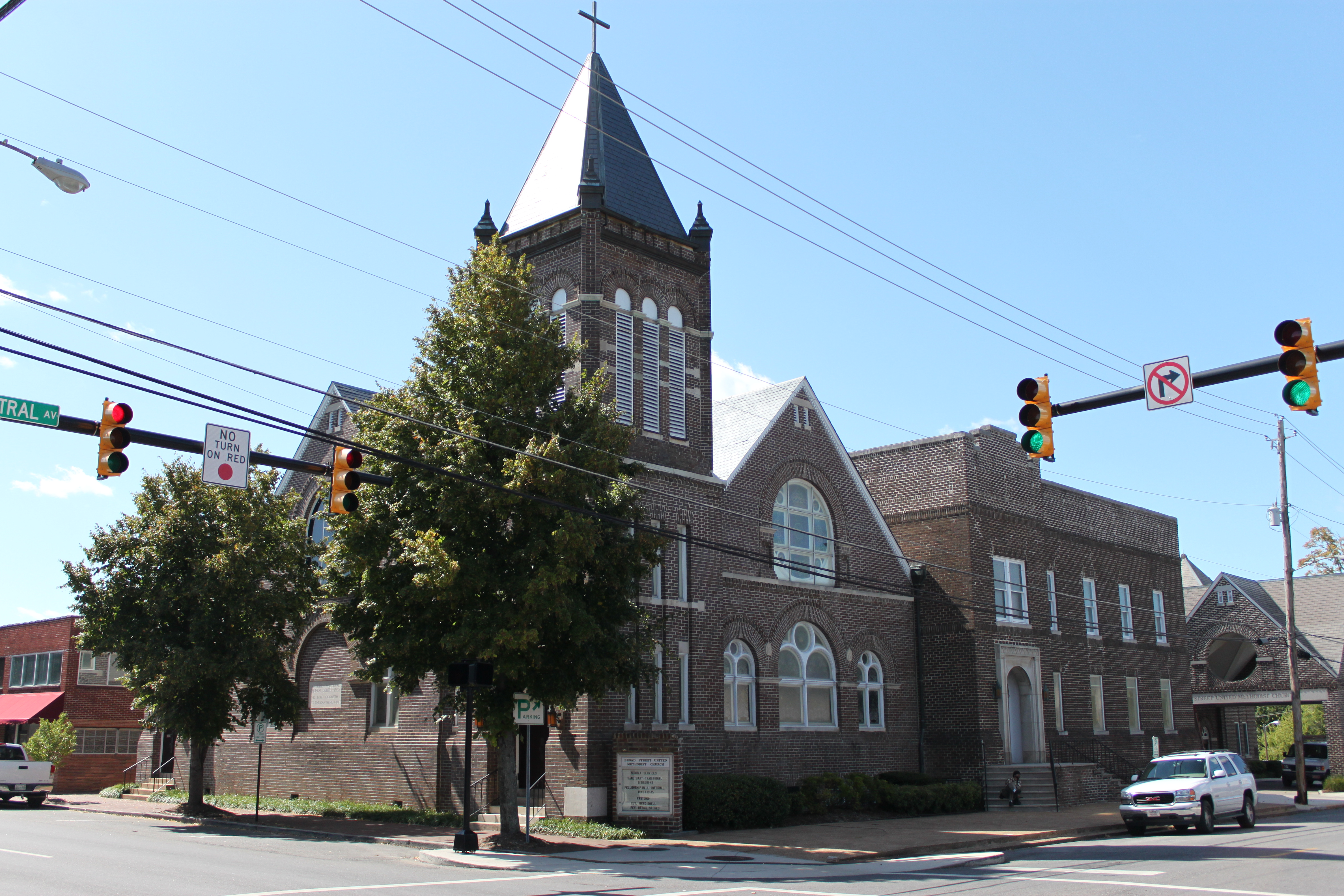 This is Broad Street United Methodist Church in Cleveland, TN